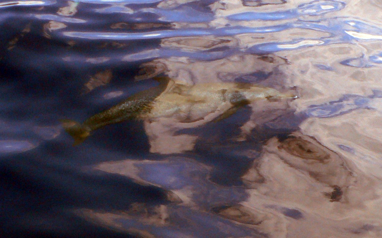 Atlantic Spotted Dolphin Stenella frontalis off Madeira main island